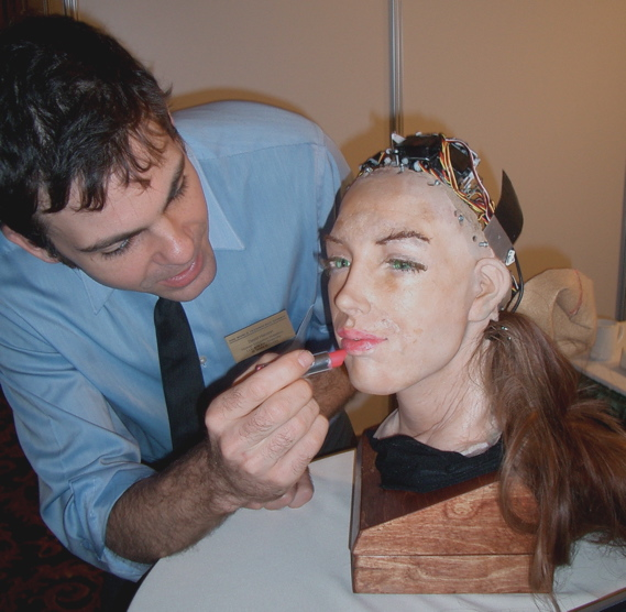 A robot by Human Emulation Robotics. Lipstick is carefully applied by the designer -- easier when the power is off. She frowns and shakes her head if you get too close.